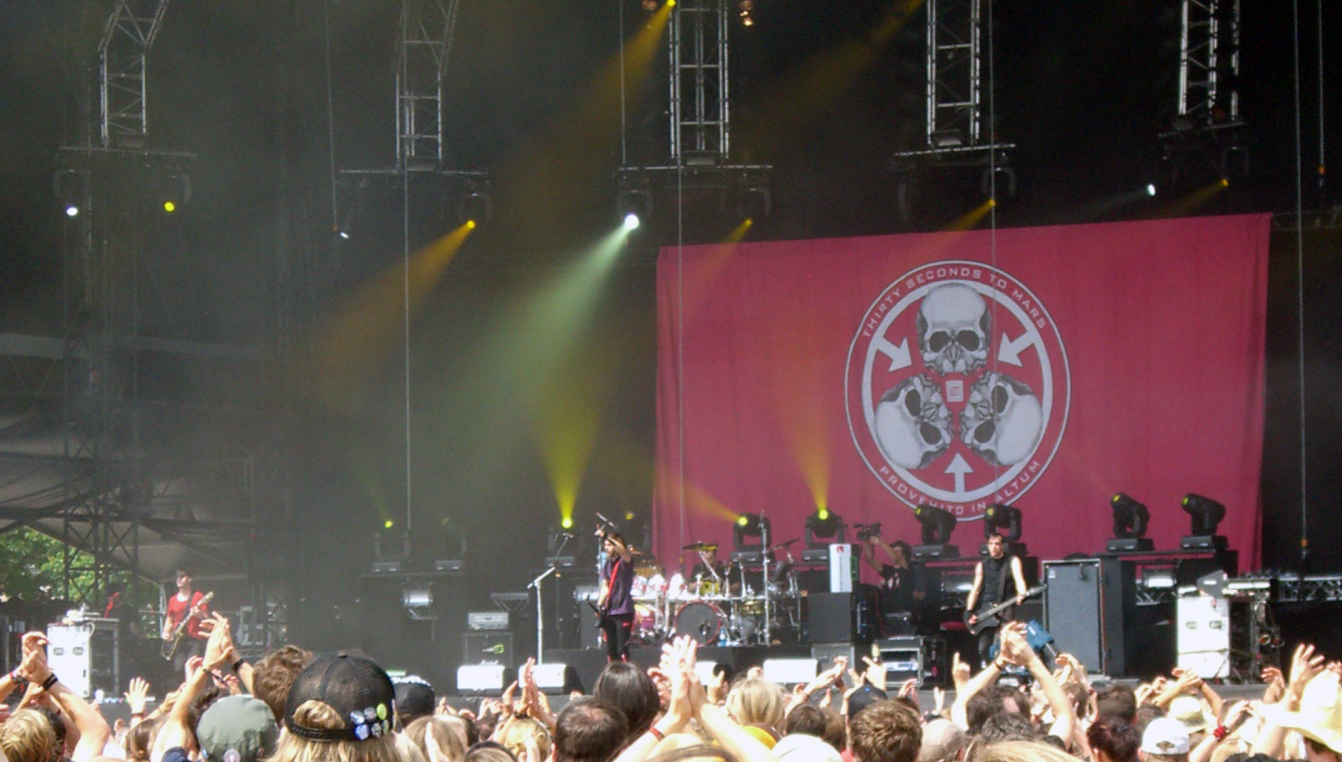 Thirty Seconds to Mars at Rock im Park 2007